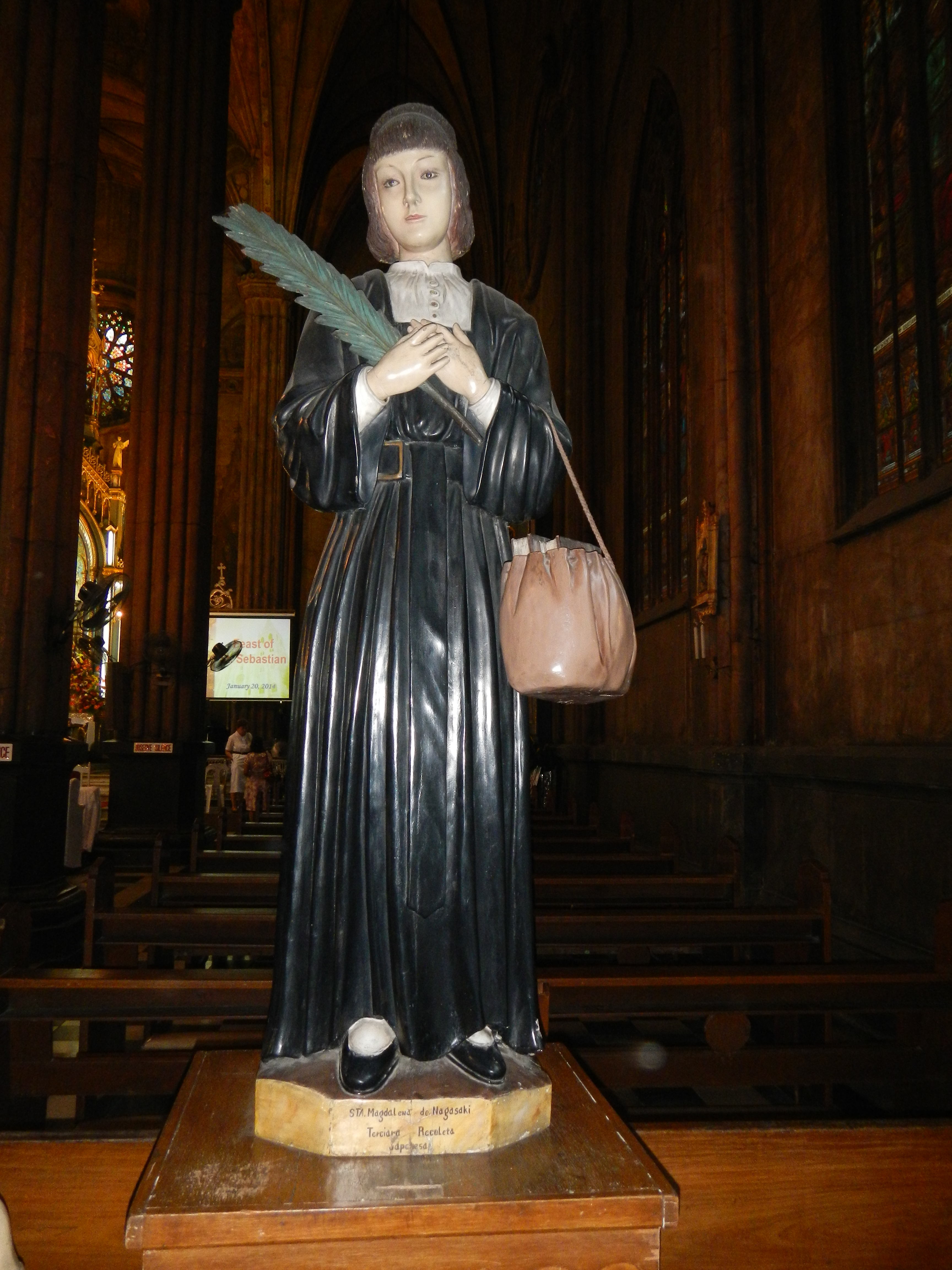 Upload Wizard - Basilica of San Sebastian, Manila[1]The Basilica Minore de San Sebastián, better known as San Sebastián Church, is a Roman Catholic minor basilica in Manila, the Philippines. It is the seat of the Parish of San Sebastian and the National Shrine of Our Lady of Mt. Carmel.[2] - I retake or re-photograph this Great Church, the only steel church in the Philippines, since all the lights are out being the Feast Day, January 20, 2014 of St. Sebastian, and the 73rd Grand Anniversary of St. Sebastian College, with Grand Procession and the Holy Mass is celebrated by Bishop Teodoro Buhain, DD [3] [4] Auxiliary Bishop of Manila Arzobispado de Manila, Arzobispo St., Intramuros